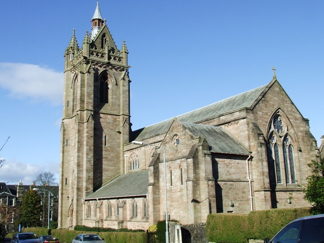 St Columba's Church (Church of Scotland) in the village of Kilmacolm. Taken from here and the work of Thomas Nugent.